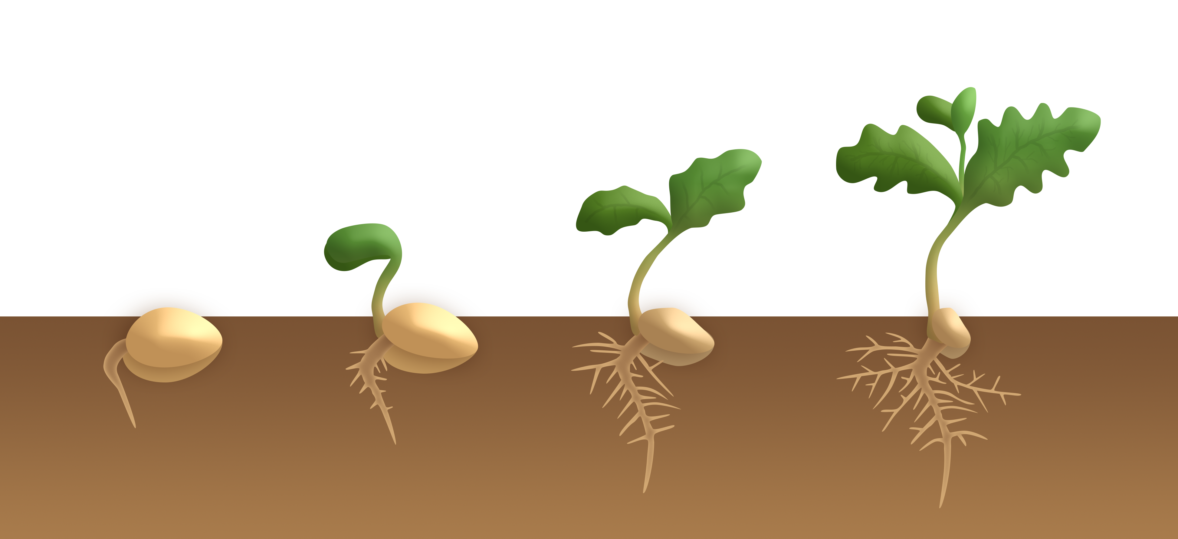 Hypogeal germination of dicotyledon/dicots (Magnoliopsida) flower, digital graphic